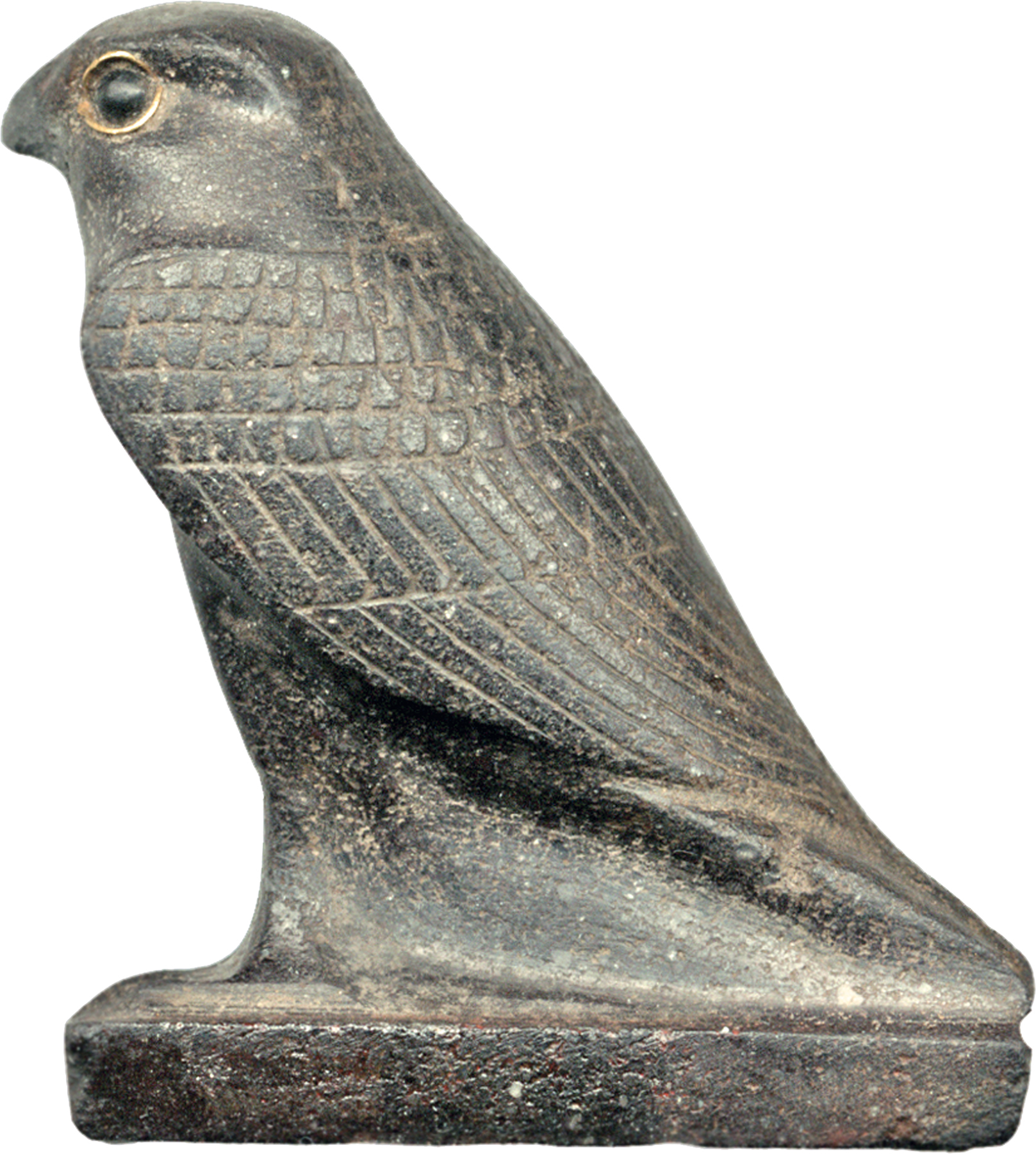 The representation of a falcon was related to Horus, god of Kingship, but also to the sun god Re. Beside there are many local gods who are represented as falcons without a crown or inscription identification is impossible.